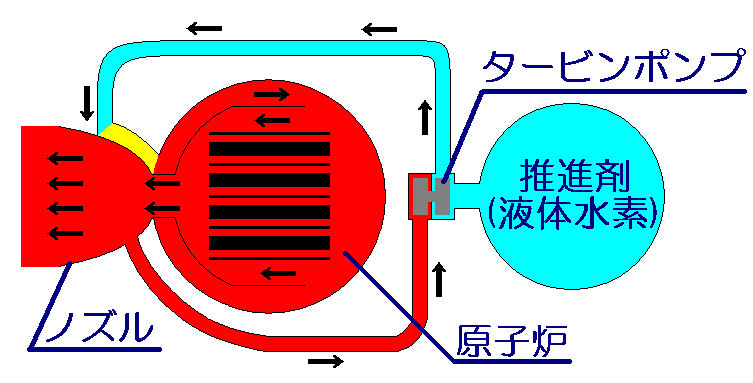 The sketch of Nuclear-thermal-rocket written in Japanese.熱核ロケットの簡略図。